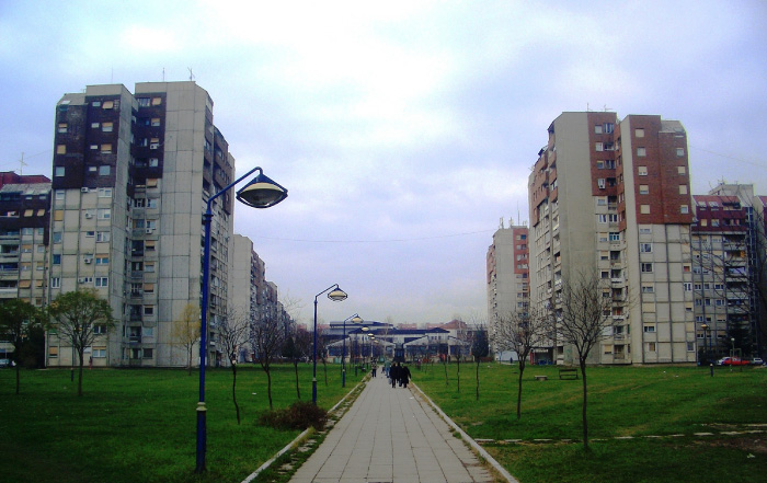 Description City Market, Aerodrom, City of Kragujevac.